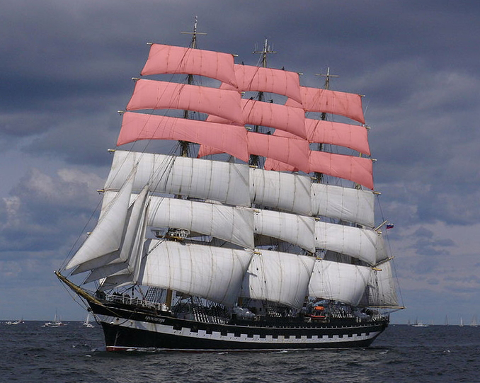 Krusenstern topgallant and royal sails